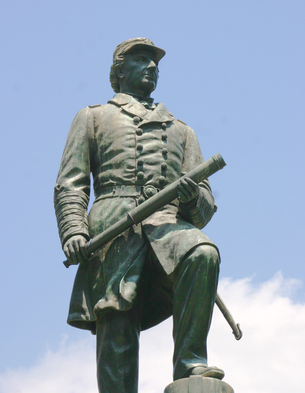 Admiral David Farragut Farragut Square, 17th and K Streets NW Sculptor: Vinnie Ream Hoxie Date: 1881 Medium: Bronze